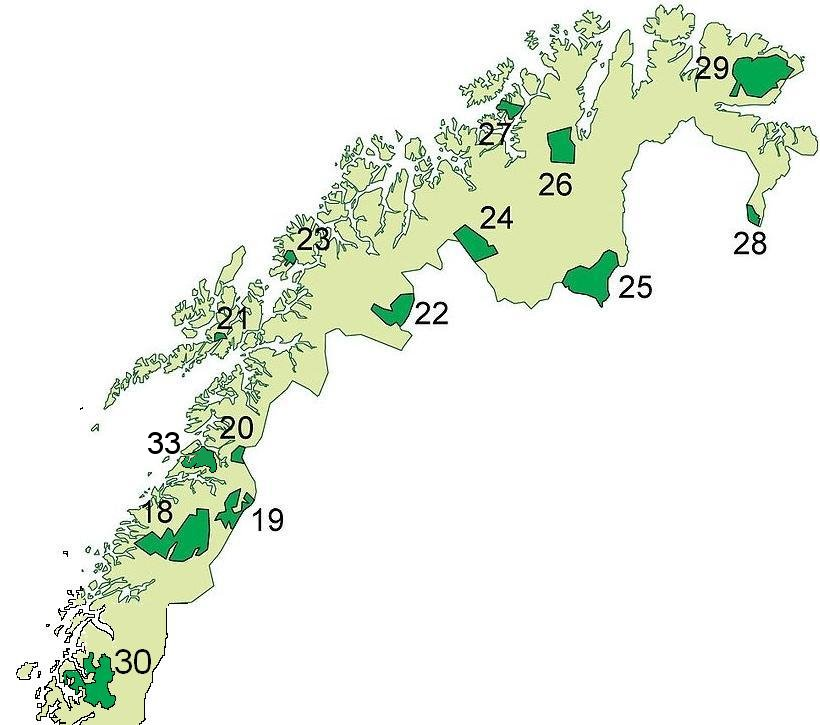 New map at the occasion of a new National Park in North-Norway, established on May 29th, 2009. The parks are 18: Saltfjellet-Svartisen nasjonalpark; 19: Junkerdal nasjonalpark; 20: Rago nasjonalpark; 21: Møysalen nasjonalpark; 22: Øvre dividal nasjonalpark; 23: Ånderdalen nasjonalpark; 24: Reisa nasjonalpark; 25: Øvre Anarjohka nasjonalpark; 26: Stabbursdalen nasjonalpark; 27: Seiland nasjonalpark; 28: Øvre Pasvik nasjonalpark; 29: Varangerhalvøya nasjonalpark; 30: Lomsdal-Visten nasjonalpark; 33: Sjunkhatten nasjonalpark (For legend